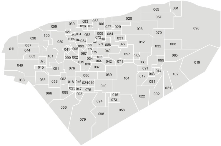 Map of the Municipalties of the State of Yucatán, México.